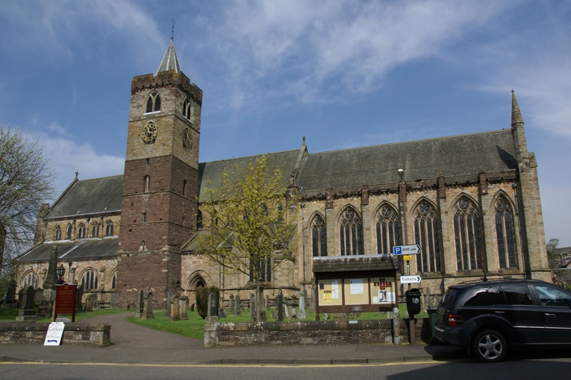 Dunblane Cathedral, Perth and Kinross, Scotland